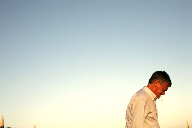 Massimo Barone, writer, Tuscany, august 2008.